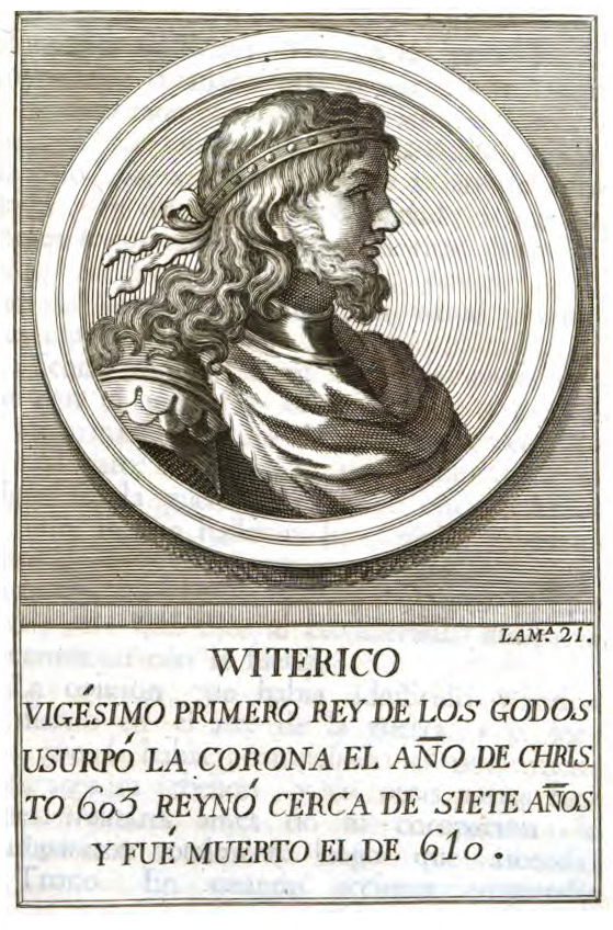 A poster of WITERICO, Visigoth king, n°21 in the chronological order of the book digitalized by Google since the bookshop in the University of Oxford.